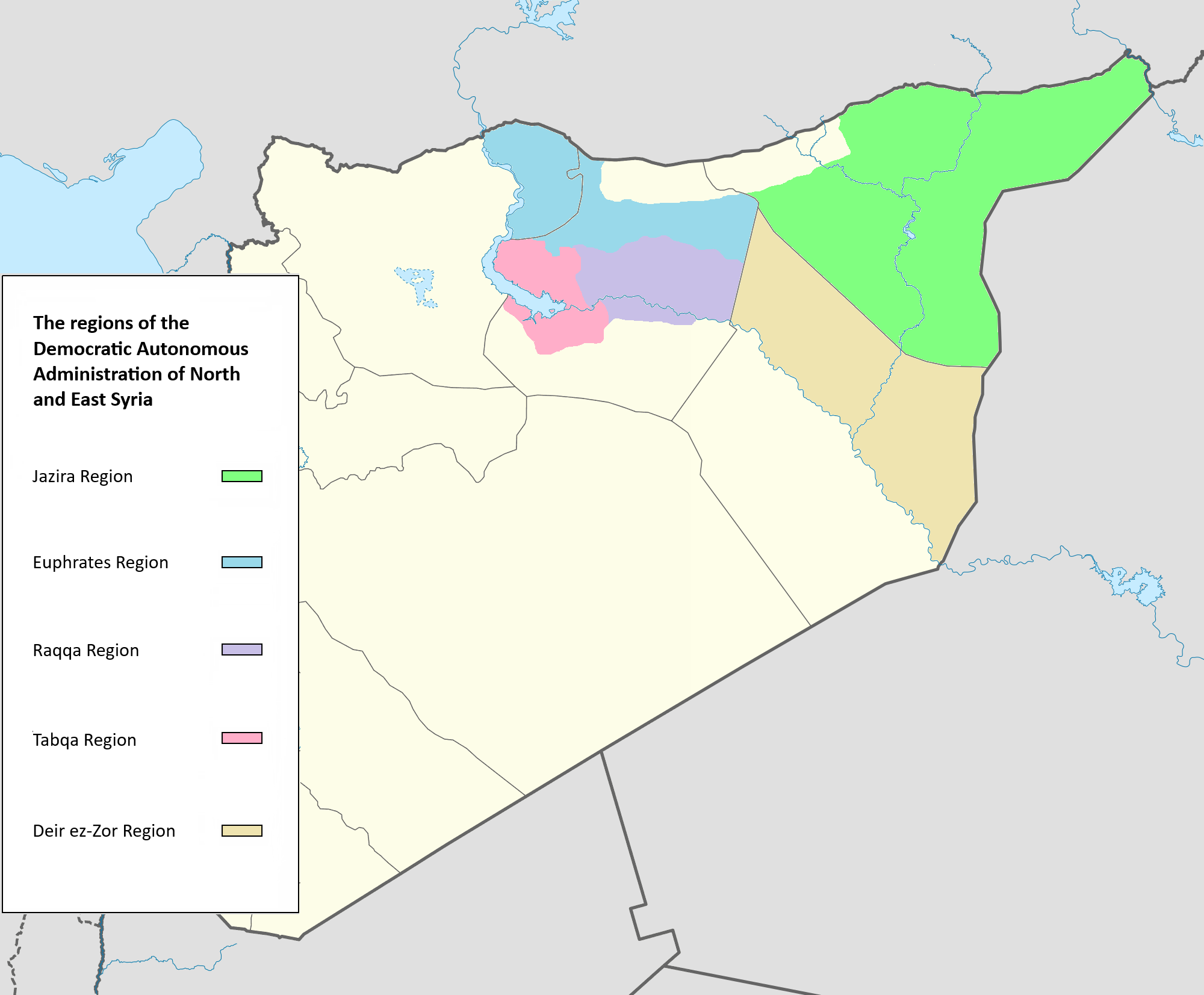 Regions of the Autonomous Administration of North and East Syria, based on map from